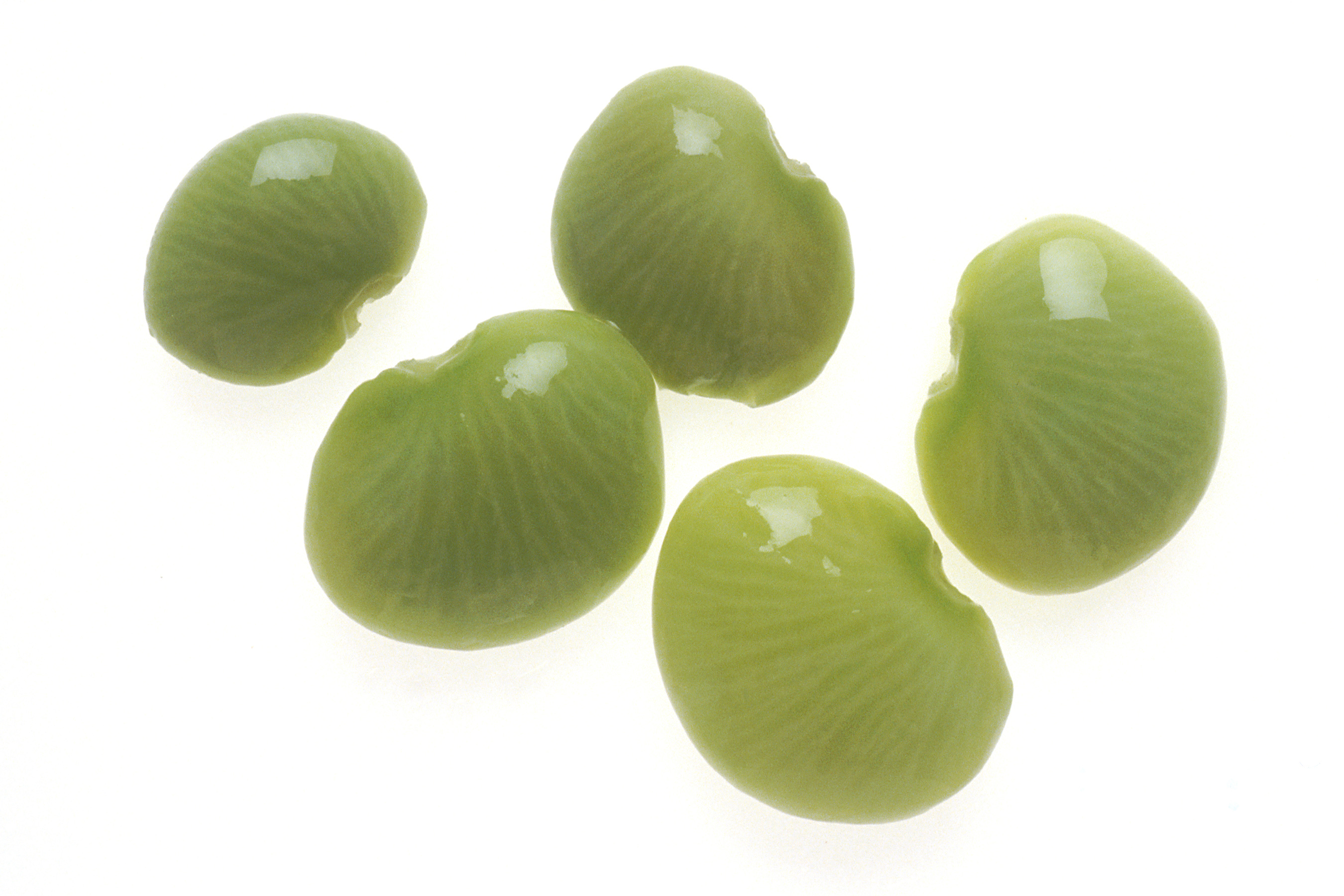 Title Lima Beans Description A group of five single, raw, lima beans. Topics/Categories Food and Drink Type Color, Photo Source National Cancer Institute